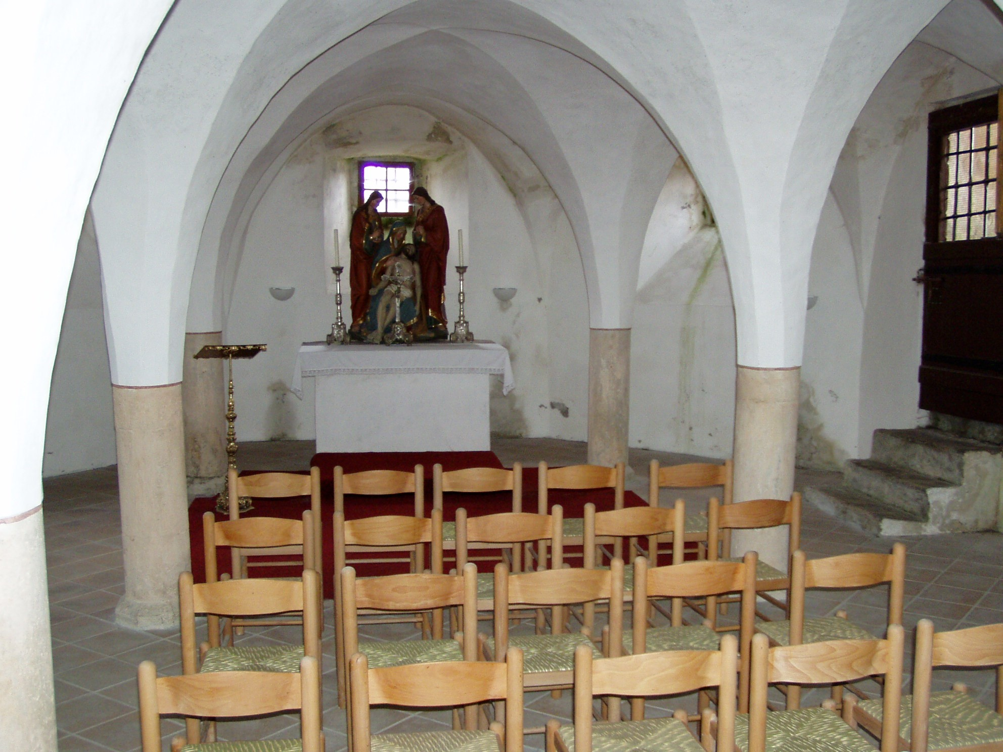 Lieding, parish church St. Margaretha/Lieding Pfarrkirche hl. Margaretha, Krypta